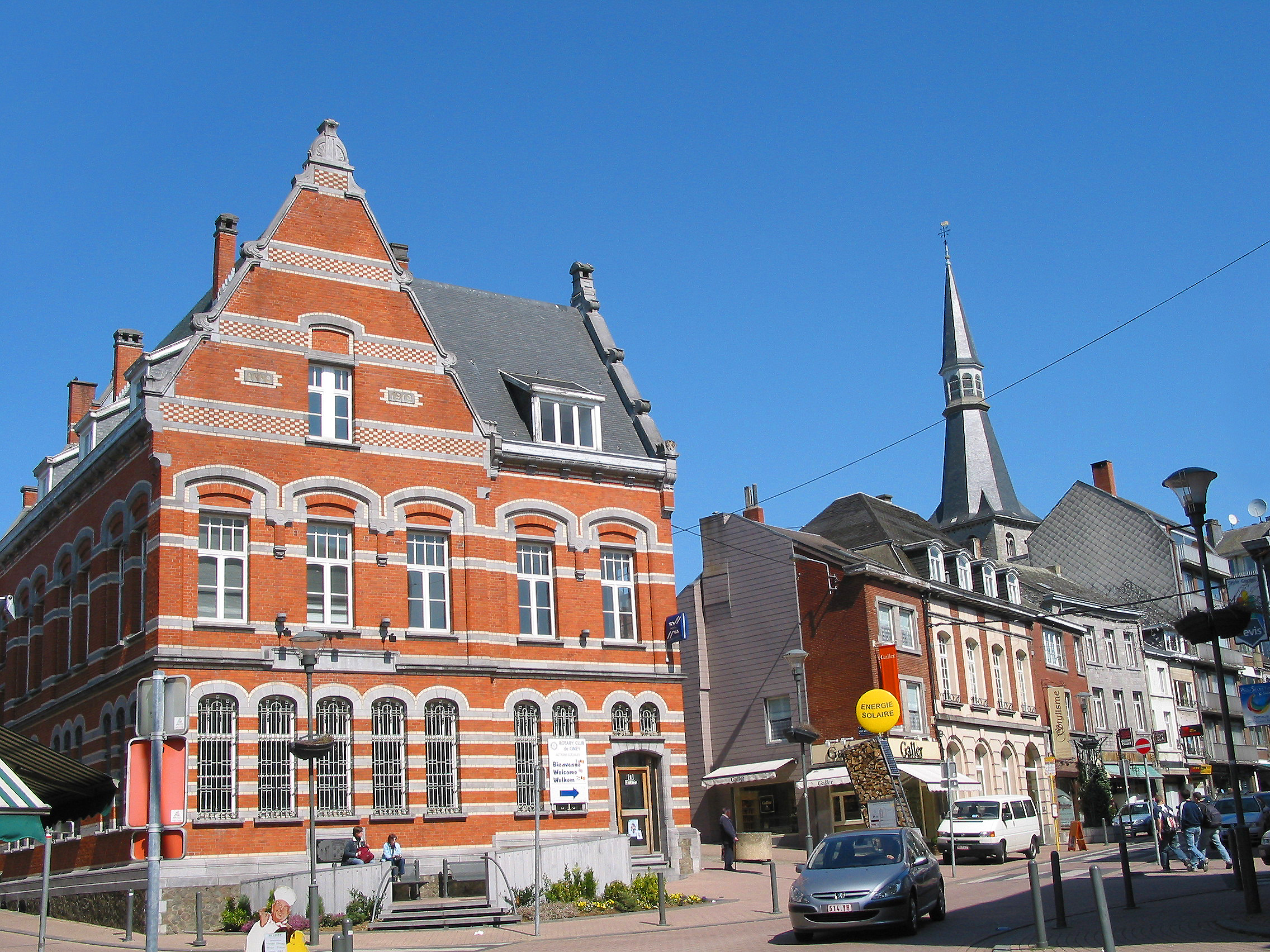 Ciney (Belgium), the Rotary club.